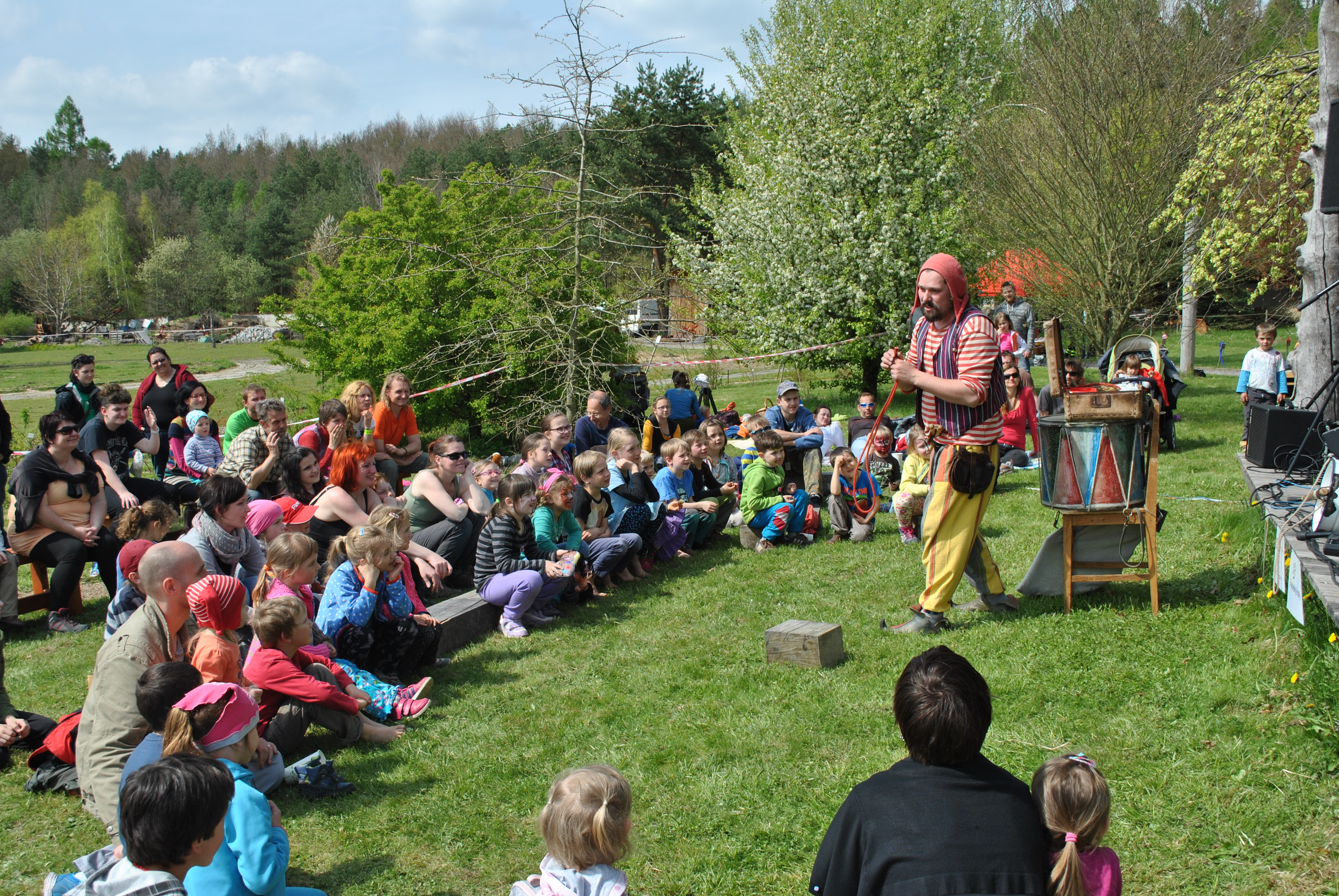 clown show in Nature History Museum Tyn nad Vltavou